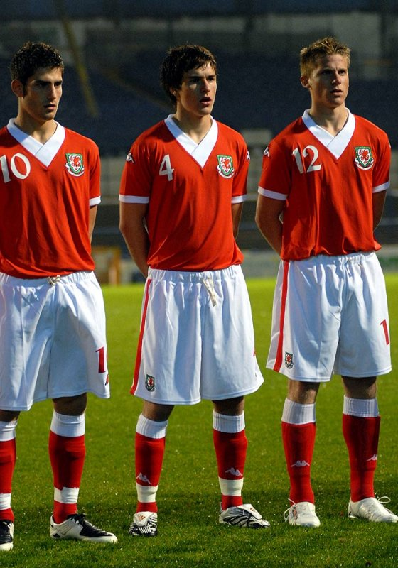 Aaron Ramsey lines up for Wales U21s alongside Christian Ribeiro (right) and Ched Evans (left)